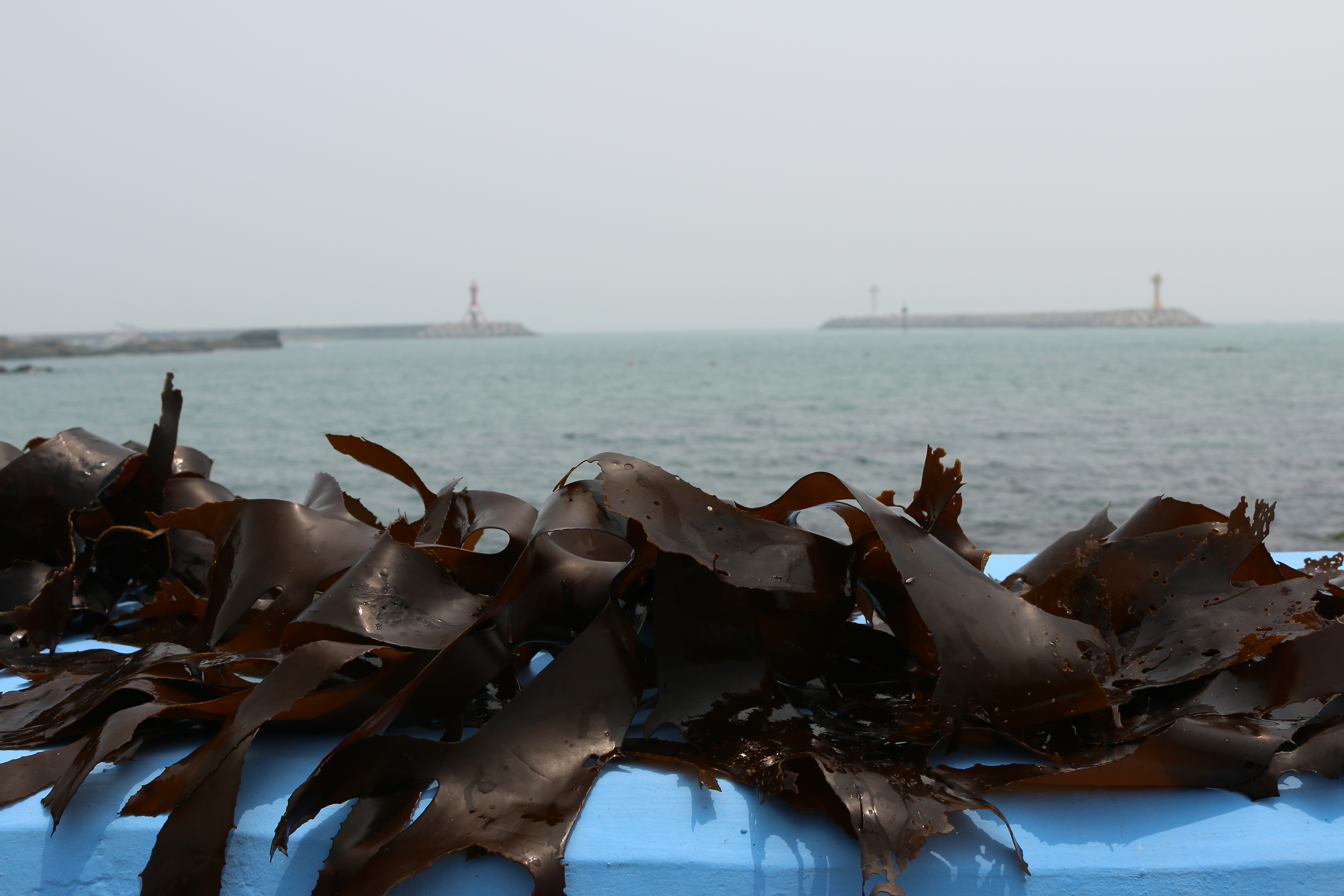 Dasima (kelp)